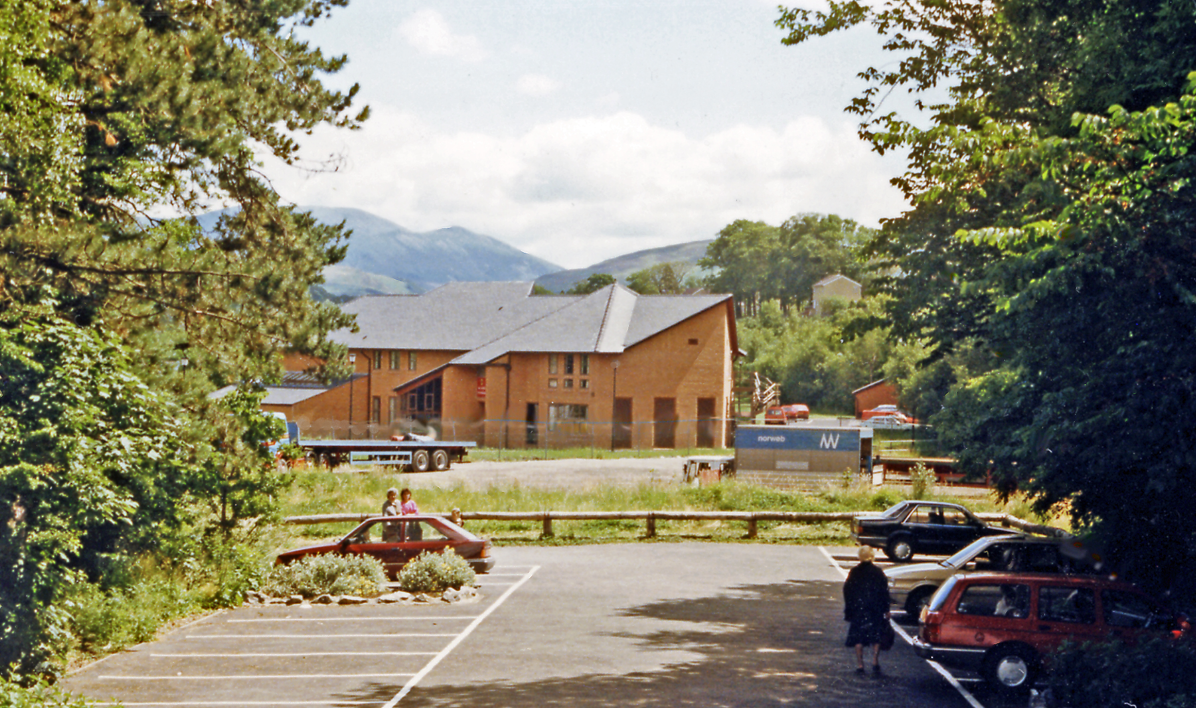 Site of Cockermouth station, 1986, View eastward, towards Penrith: ex-LNW (Workington, Cockermouth, Keswick & Penrith section). The station, and the line between Keswick and Workington, had been closed from 18/4/66 - and obviously now 20 years later had been redeveloped. The rest of this route - the only effective rail access to the Lake District - was closed from 8/9/72, and considerable stretches were used to 'improve' the A66 trunk road. The mountain in the distance is Skiddaw (3,054 ft.).